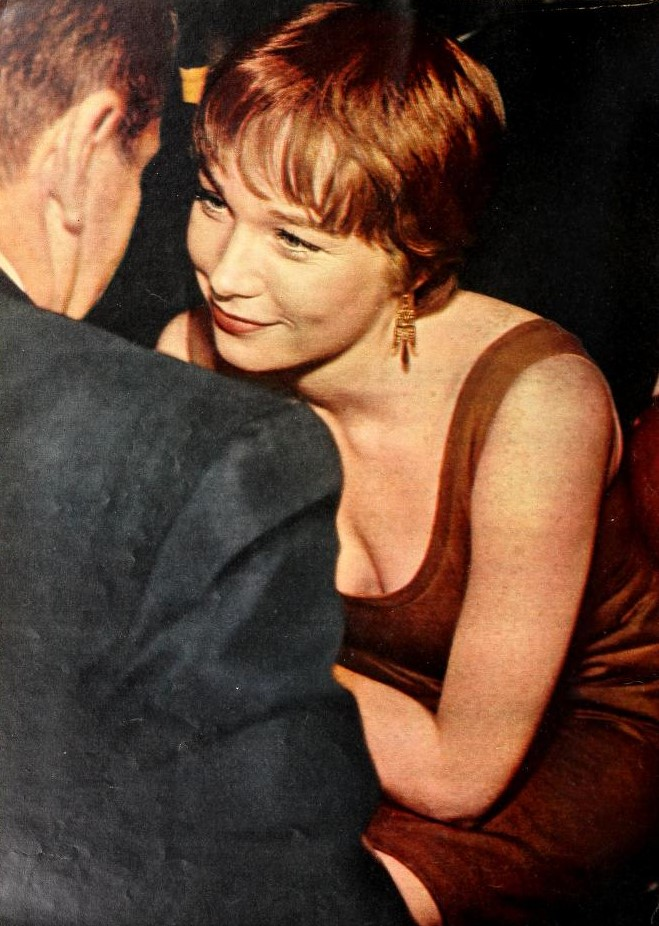 Shirley MacLaine, 1960